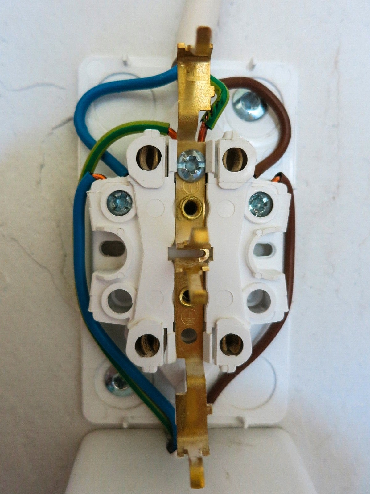 AC power sockets, European standard. The plastic cover is removed, to check the locations of the electric wires. In the upper side, feed cable enters, and in the lower side, the wires enter to the next sockets. (Estonia)